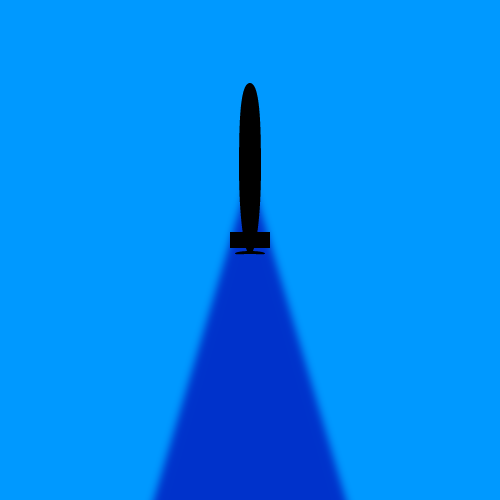 Illustration of the baffles of a submarine sonar. Original artwork by DanMS.